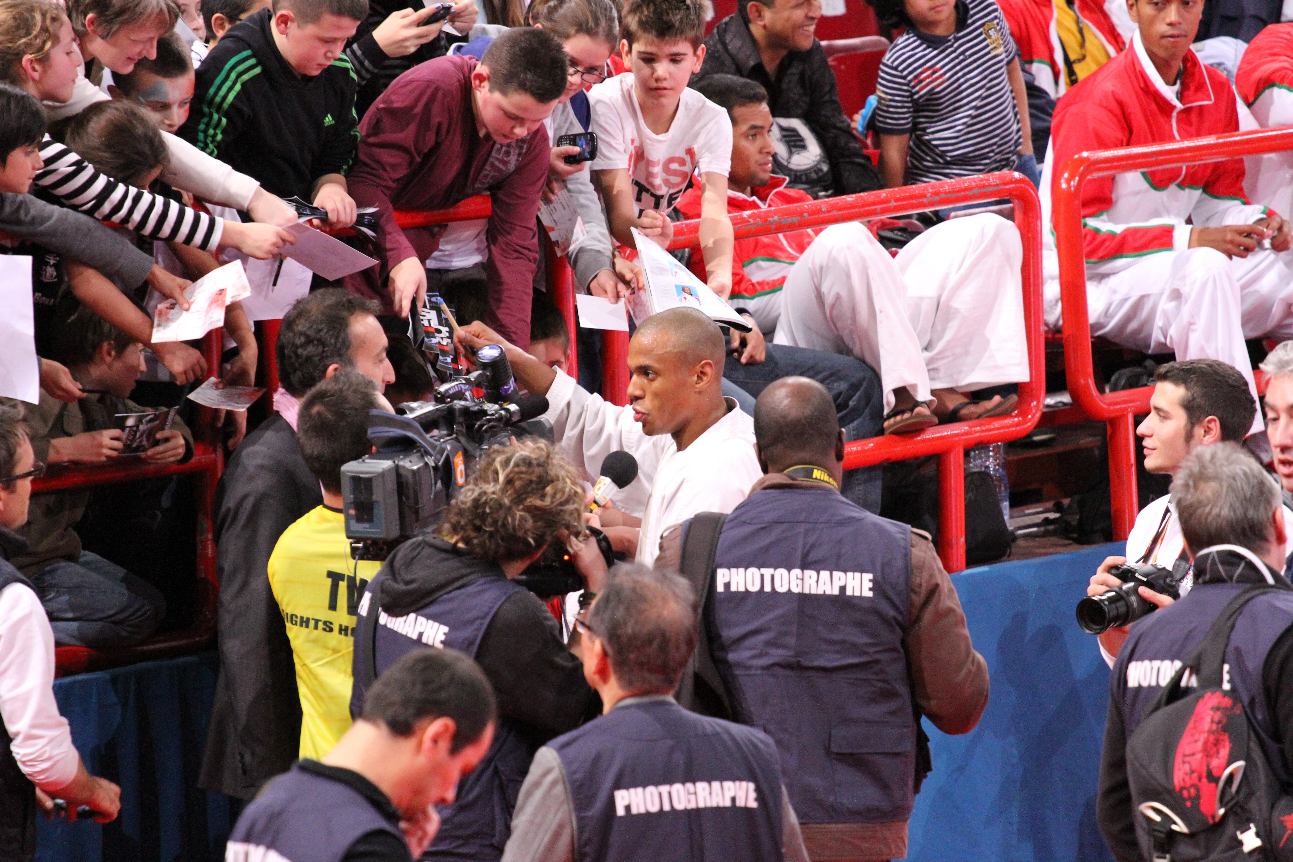 Karate World Champion 2012 (Kenji Grillon- France)